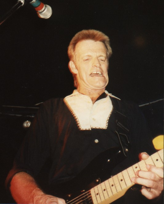 Ronnie Dawson performing at the Beat Kitchen in Chicago